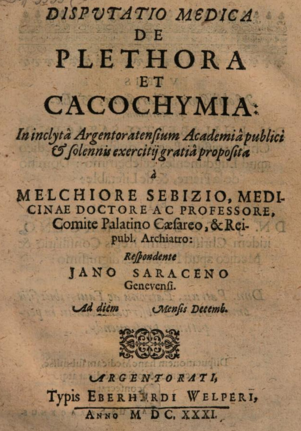 Disp. de plethora et cacochymia, 1631